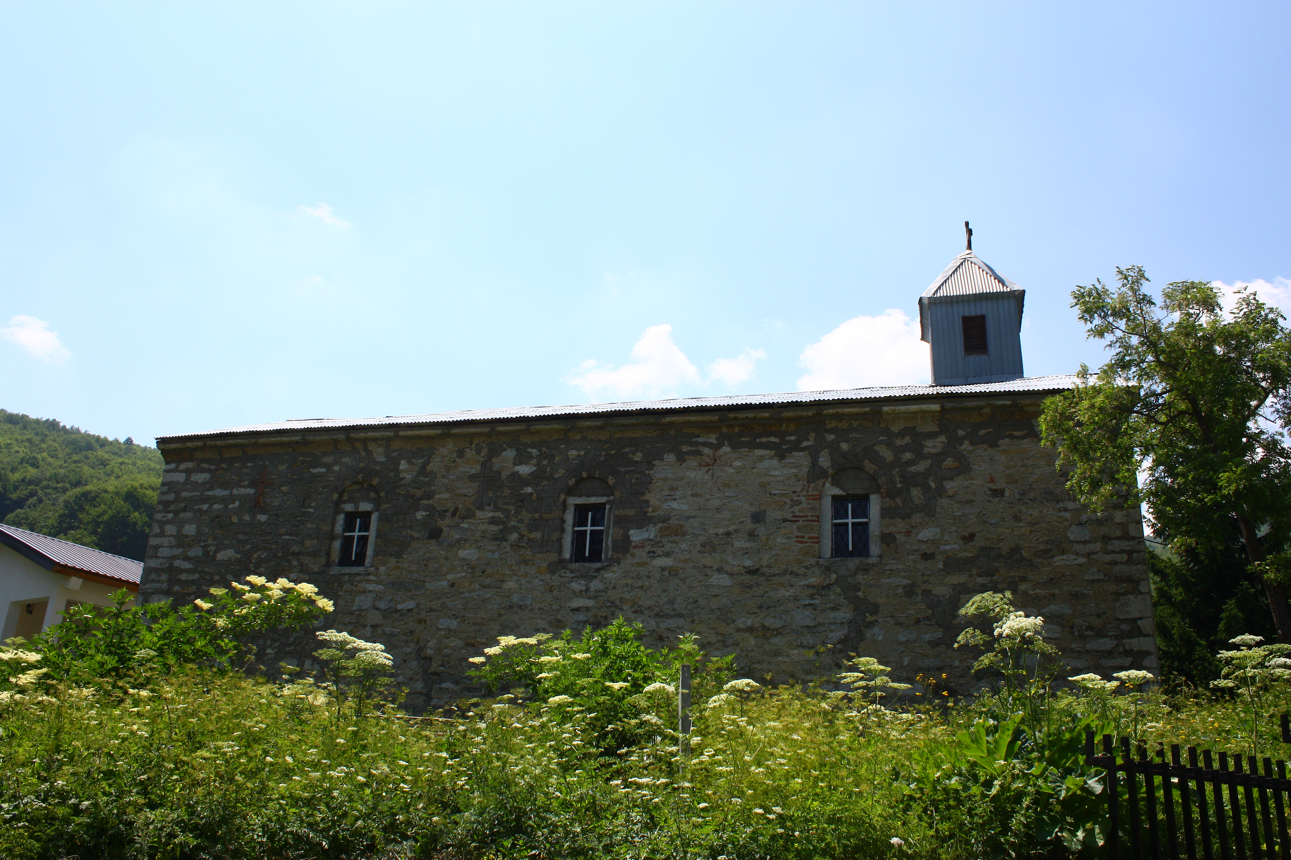 St. Pantaleon's Church in Nikiforovo, Macedonia